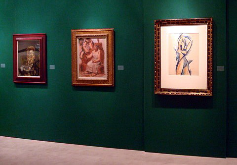 View of a wall with paintings by Picasso at the art fair TEFAF 2011 in Maastricht, the Netherlands.